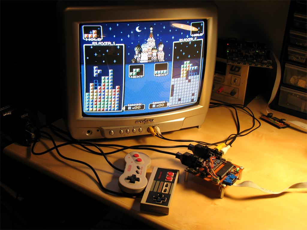 Ubebox homebrew game console running "AVR Megatris", a tetris clone. Game licensed under GPL3 (subdirectory in repository).[1]